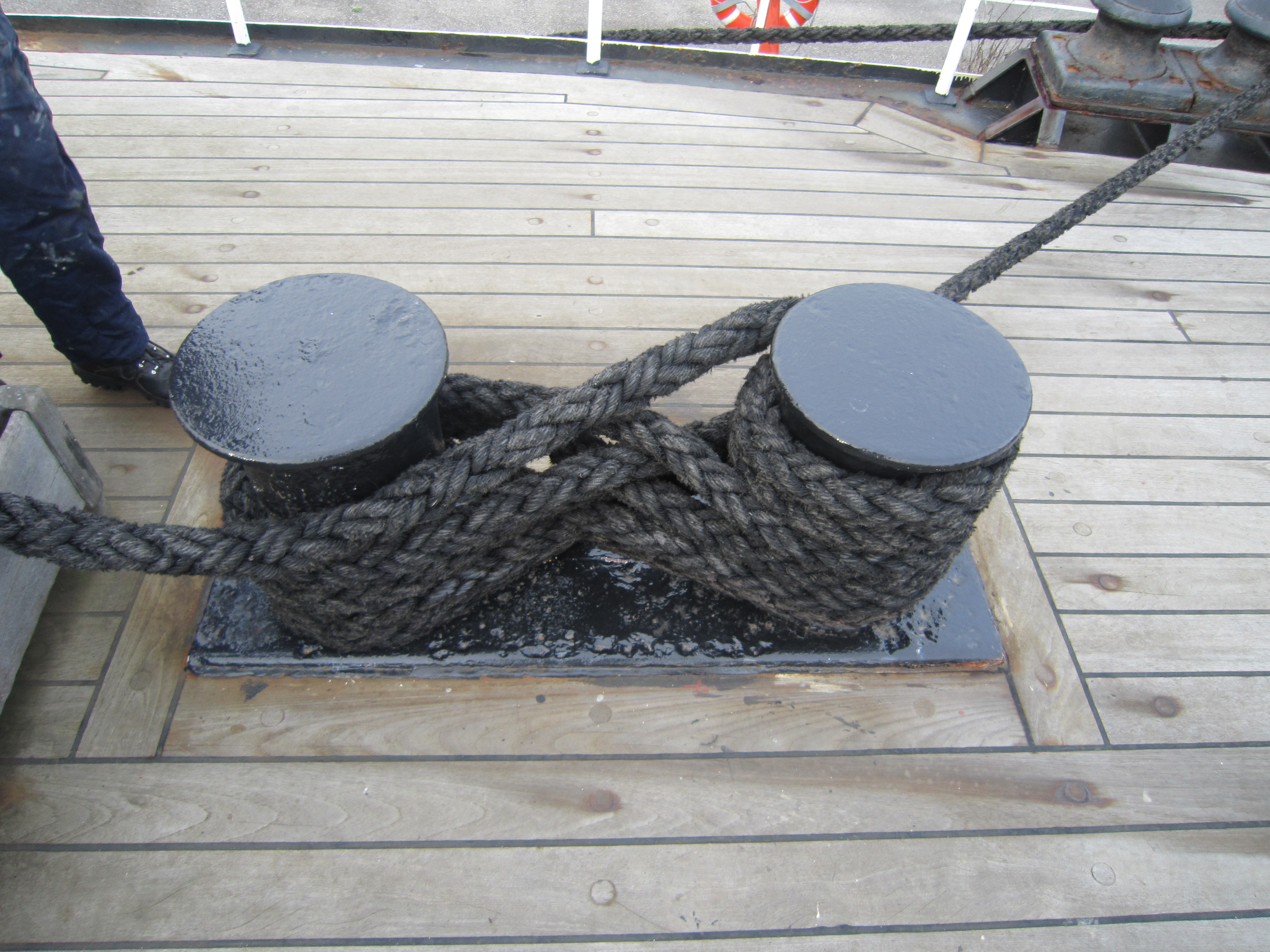 Mooring bitts on board SS Shieldhall. SS Shieldhall is a preserved steamship that operates from Southampton. She spent her working life as one of the "Clyde sludge boats", making regular trips from Shieldhall in Glasgow, Scotland, down the River Clyde and Firth of Clyde past the Isle of Arran, to dump treated sewage sludge at sea. These steamships had a tradition, dating back to World War I, of taking organised parties of passengers on their trips during the summer. SS Shieldhall has been preserved and the accommodation is again being put to good use for cruises.